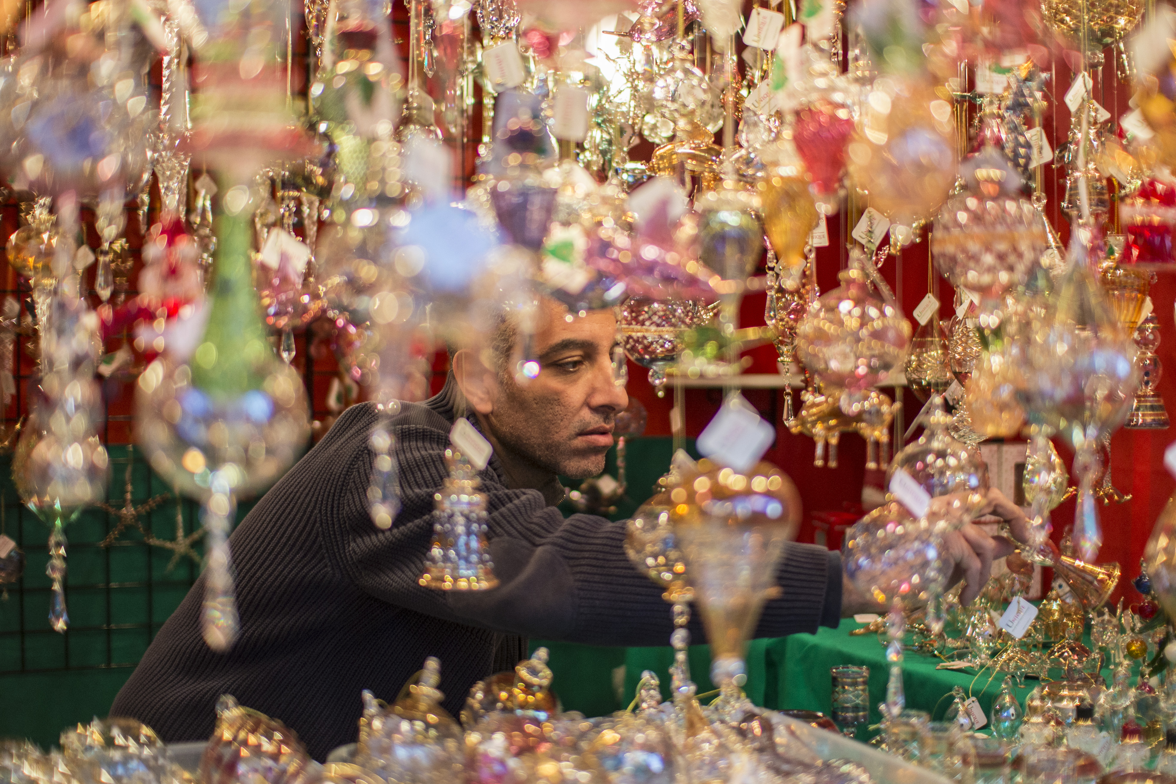 Glass ornament vendor at Christmas Village in Philadelphia in LOVE Park